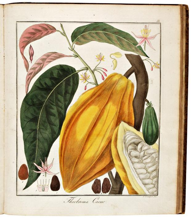 Botanical plate of Theobroma cacao by Friedrich Guimpel from Friedrich Gottlob Hayne's "Getreue Darstellung und Beschreibung der in der Arzneykunde gebräuchlichen Gewächse, wie auch solcher, welche mit ihnen verwechselt werden können"